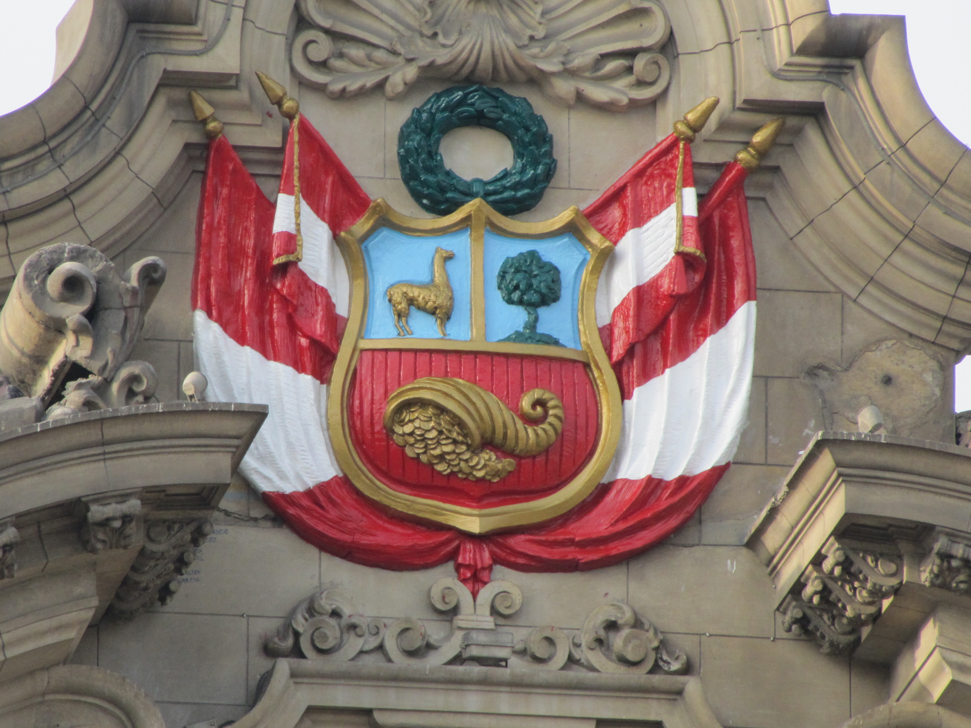 Coat of Arms - Plaza de Armas - Lima, Peru